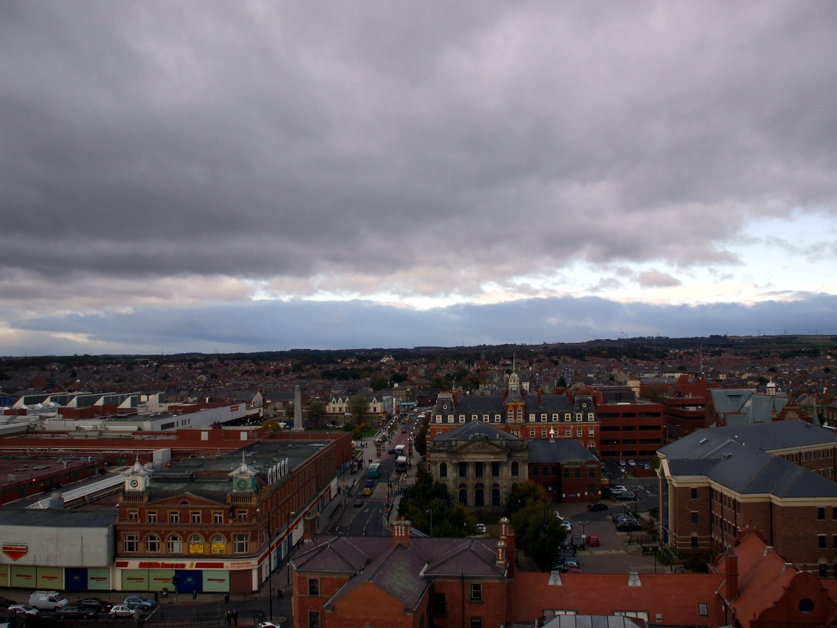 A view from the viewing platform at Christchurch, Hartlepool, looking west